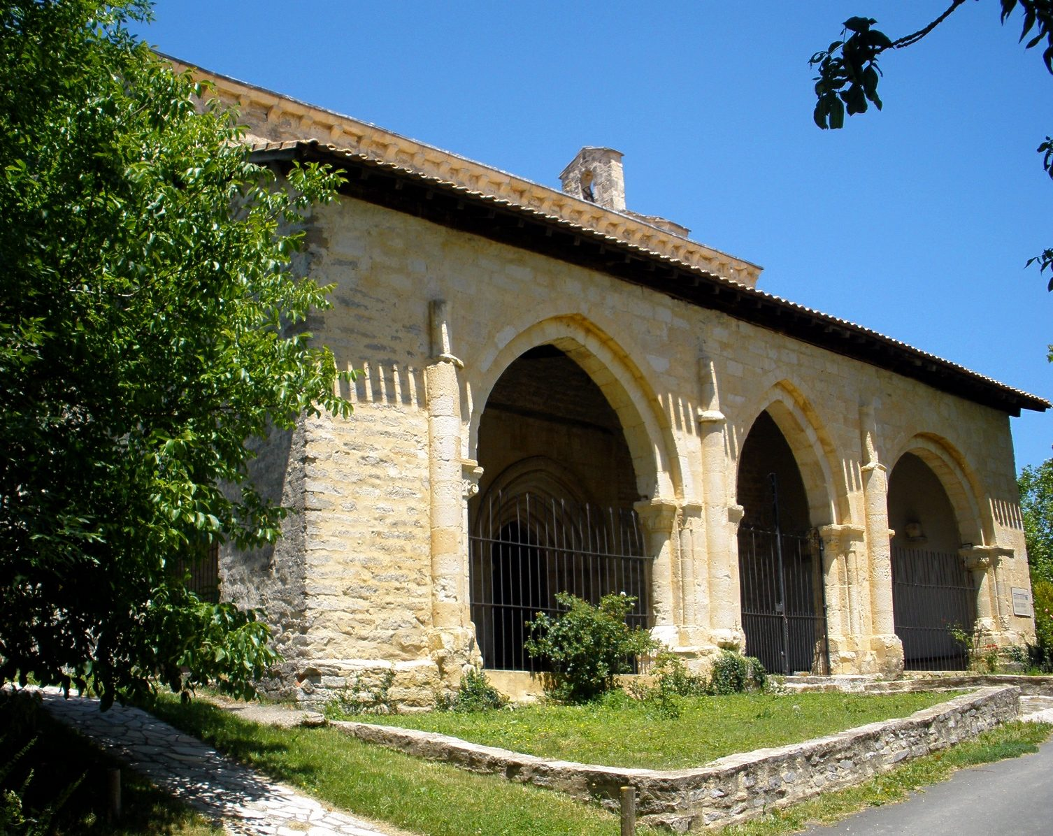 Santuario de N. S. de Ayala (Alegría-Dulantzi)